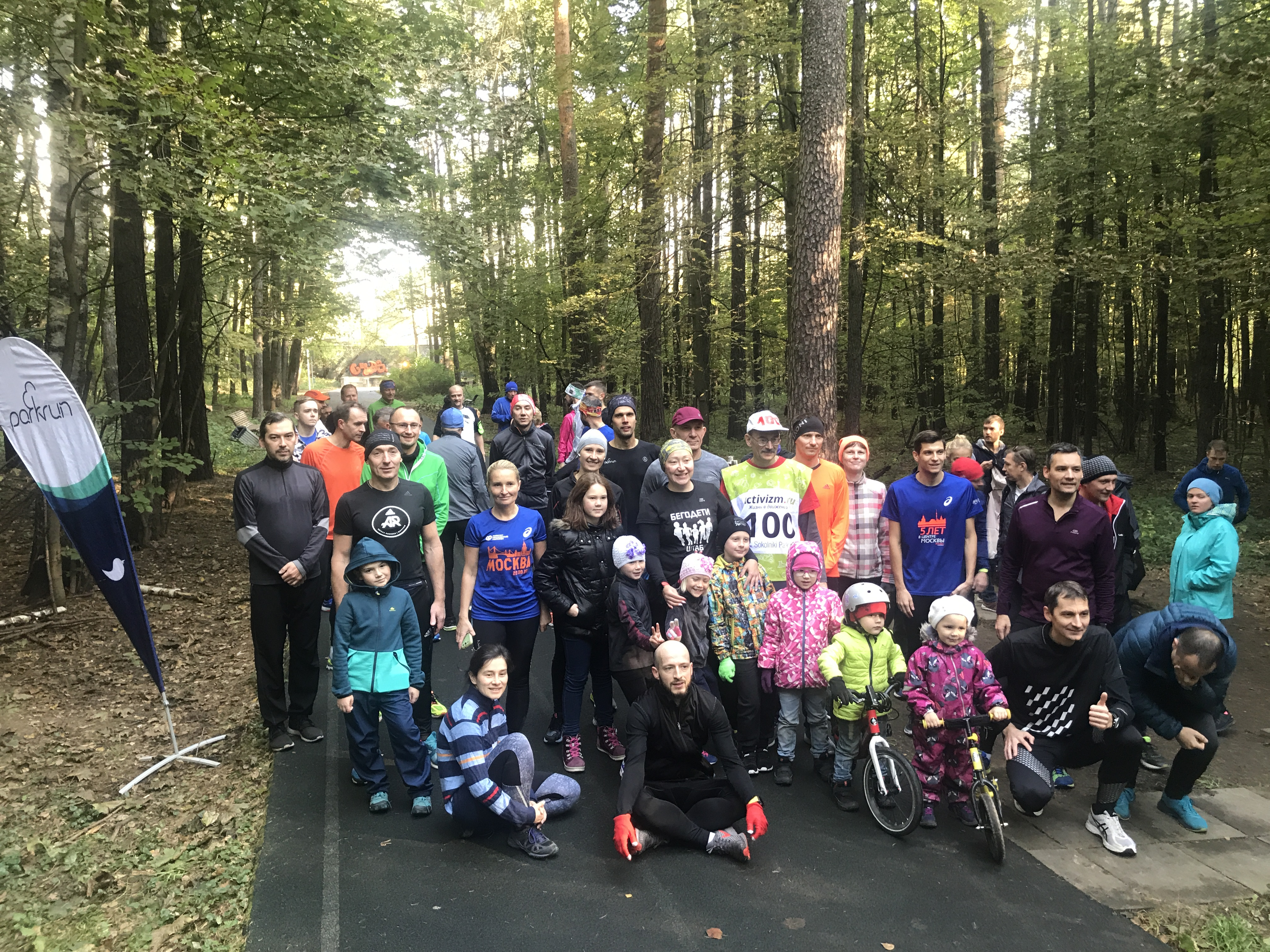 Parkrun Izmailovo №274 — 28.09.2019